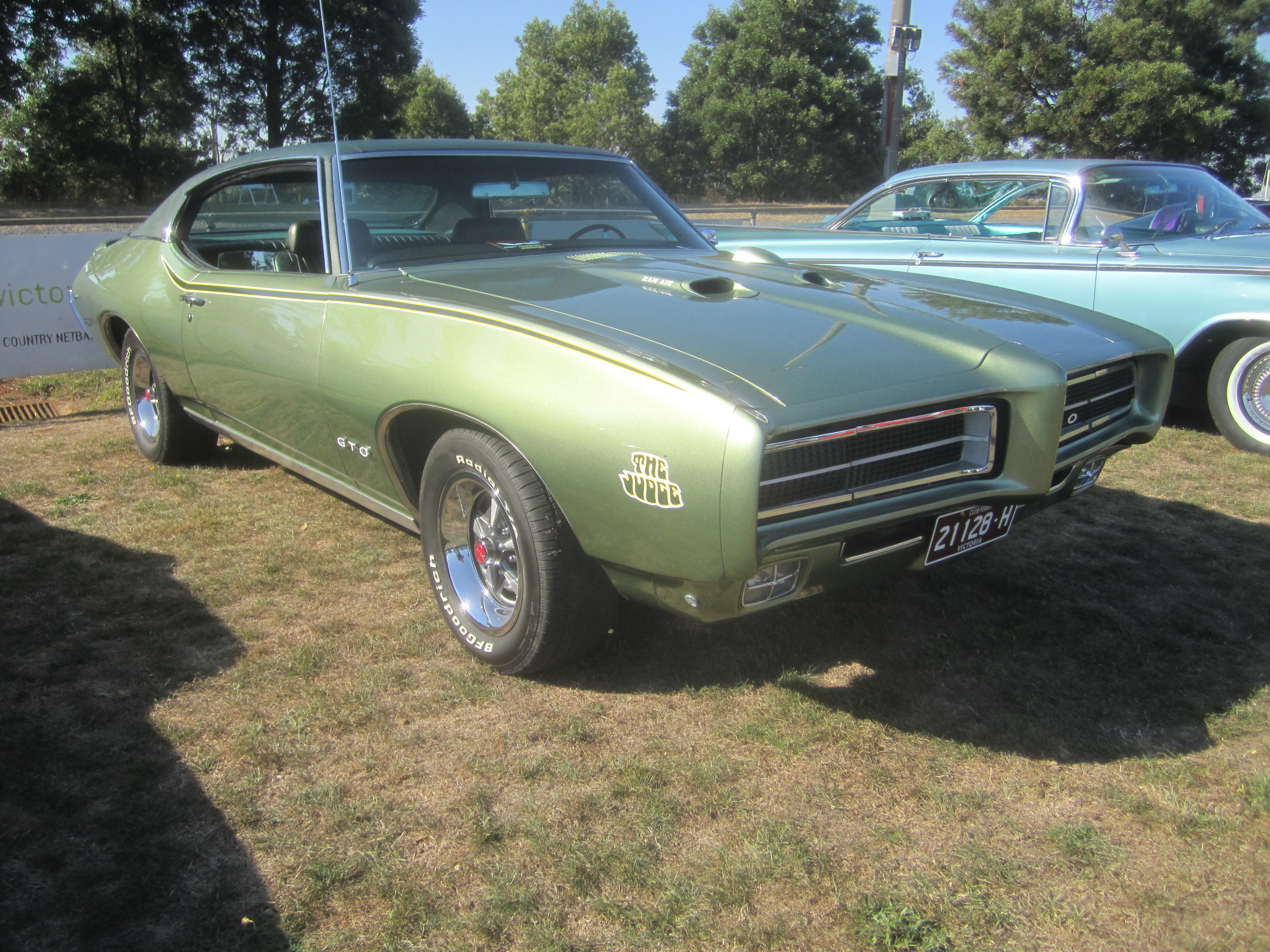 A muscle car produced from 1964 to 1974 Through 3 generations, this the 2nd generation, introduced in 1968 was shorter and narrower, and featured a more fastback roof line and hidden headlights. In 1969 the vent windows went and grille and taillights were revised and the performance 'Judge' option was now available. 3 Engine options; base 350hp 400cu in, the 1968 360hp Ram Air II was upgraded to 366hp Ram Air III in 1969 and also available was the 370hp Ram Air IV